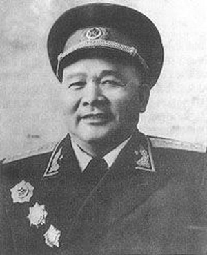 Xu Haidong (simplified